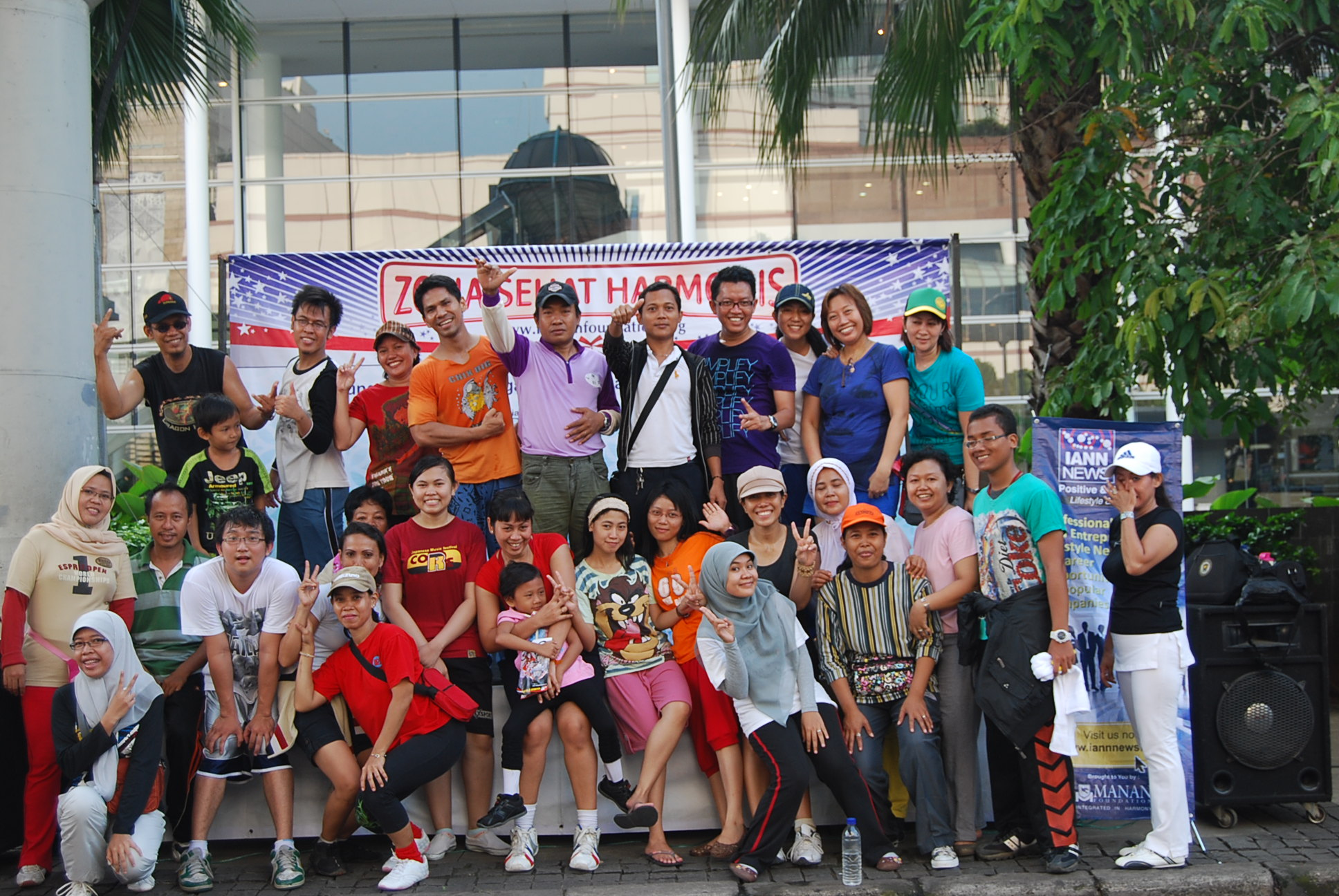 Car Free Day in Bundaran Hotel Indonesia